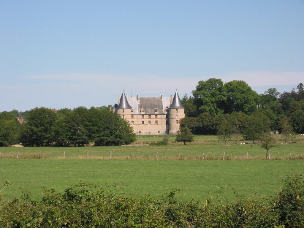 Jaligny-sur Besbre (France) - Le château - XVe siècle